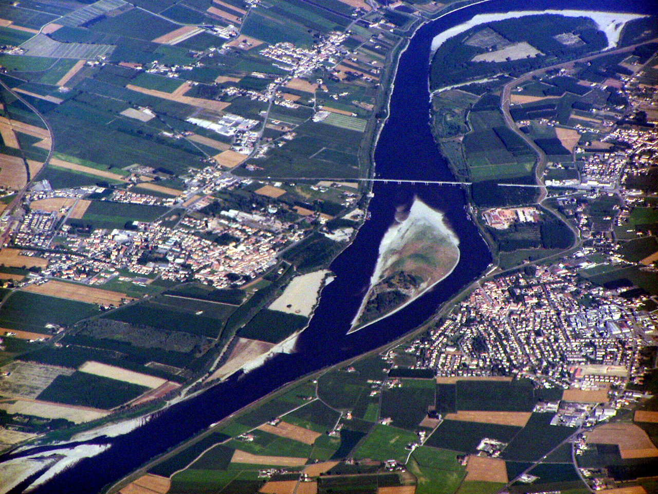 Aerial view of Castelmassa and Sermide, Lombardy, Italy. River Po crossed by Provincial Road 34bis.